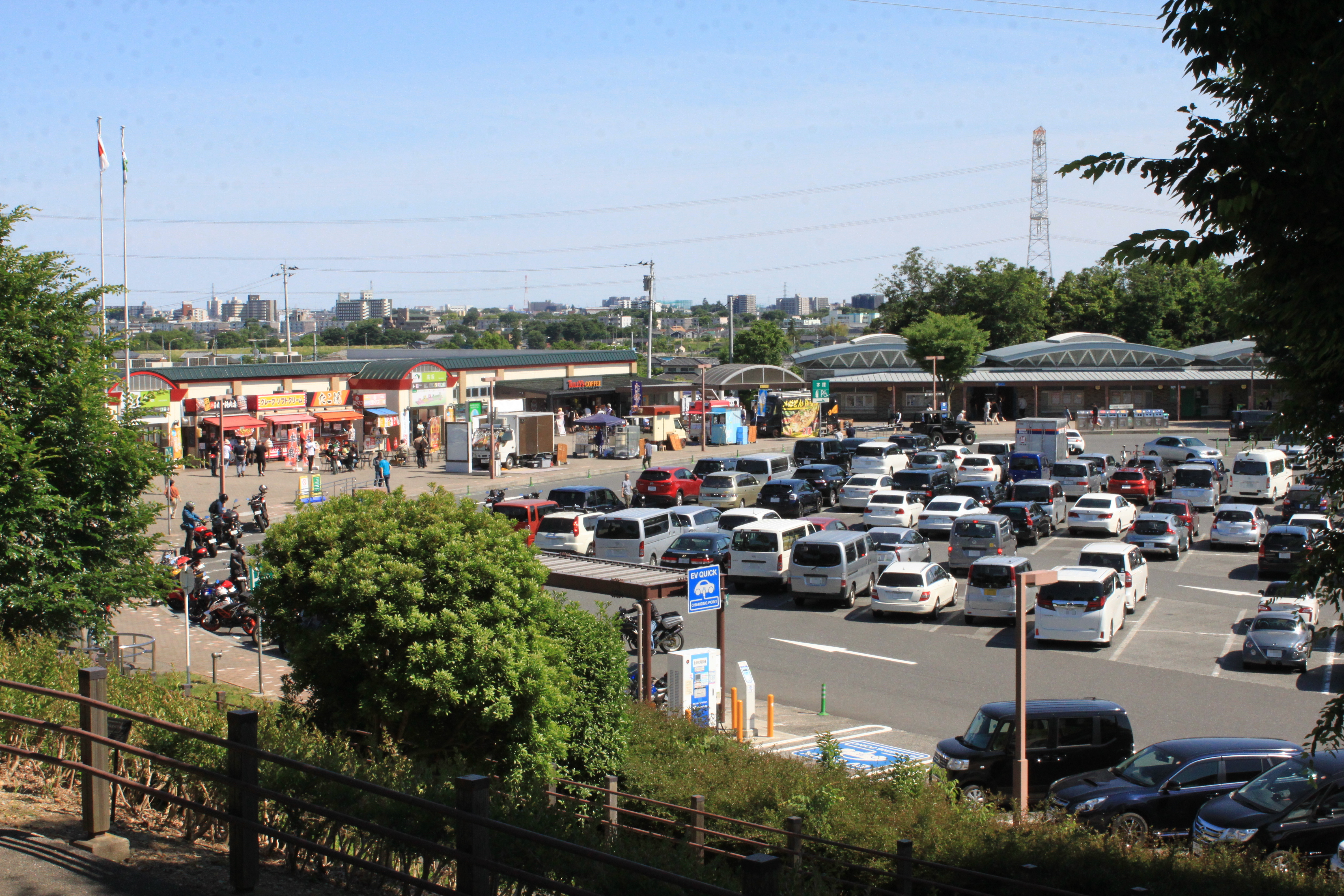 Takasaka Service Area of Kan-etsu Expressway Canon EOS Kiss X3